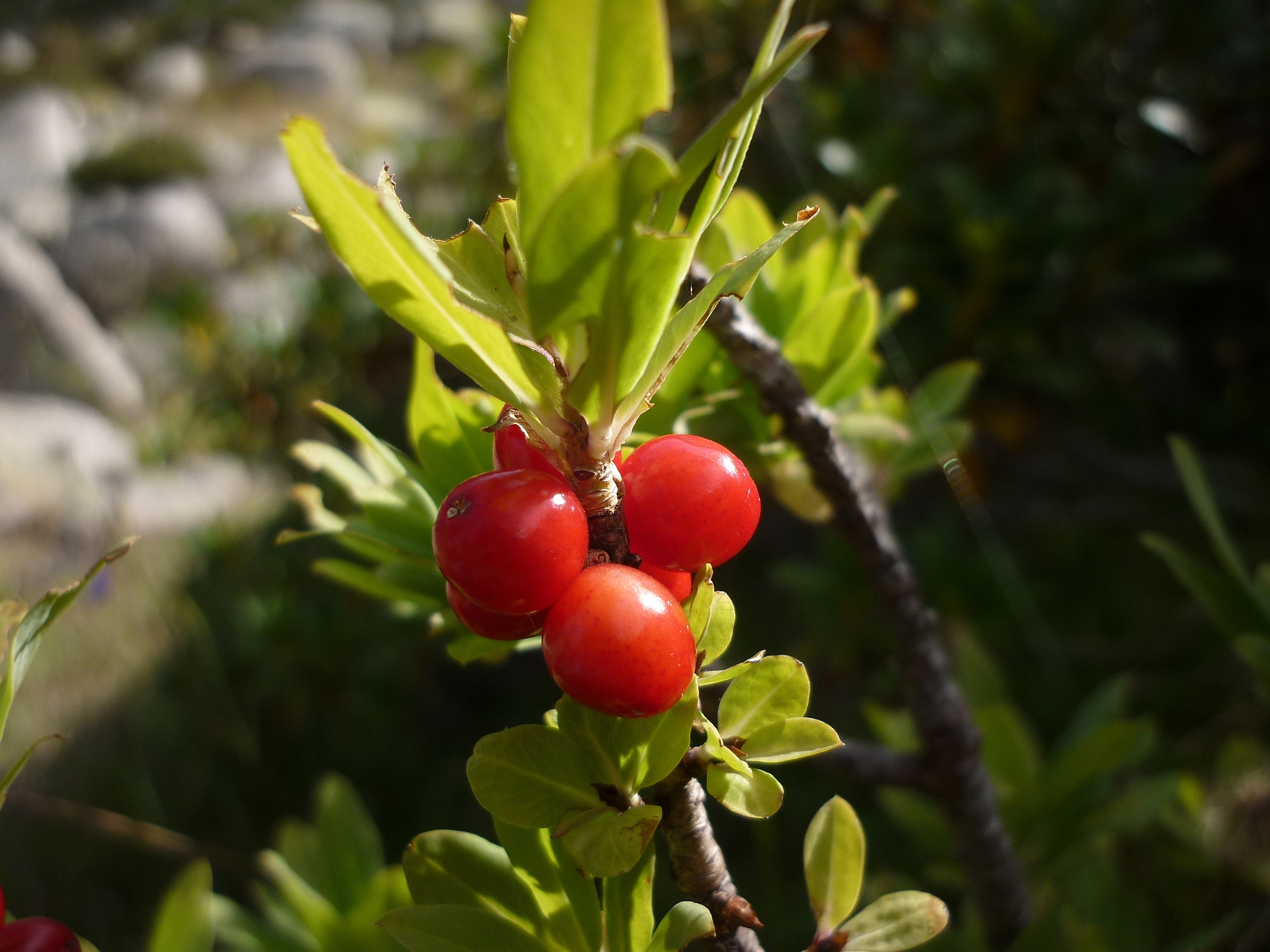 Daphne mezereum. Near the Estany Gento (Pallars Jussà - Catalunya. To 2.150 m altitude